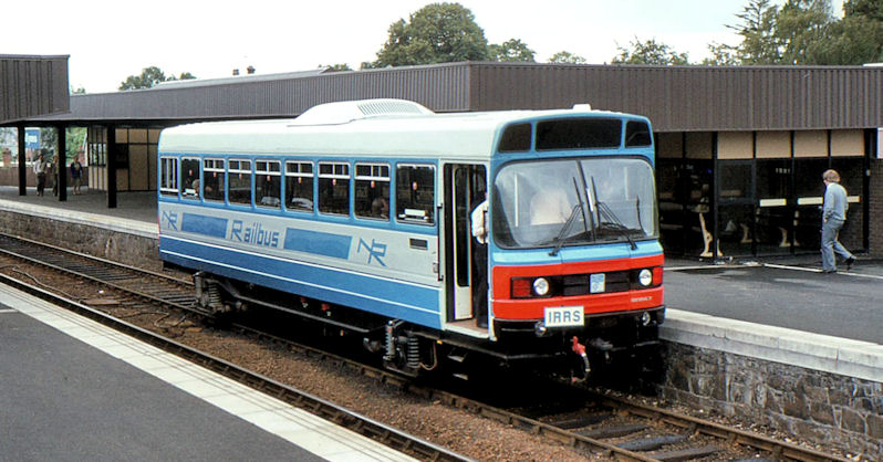 Northern Ireland Railways Leyland railbus RB3 at Ballymena, 1982